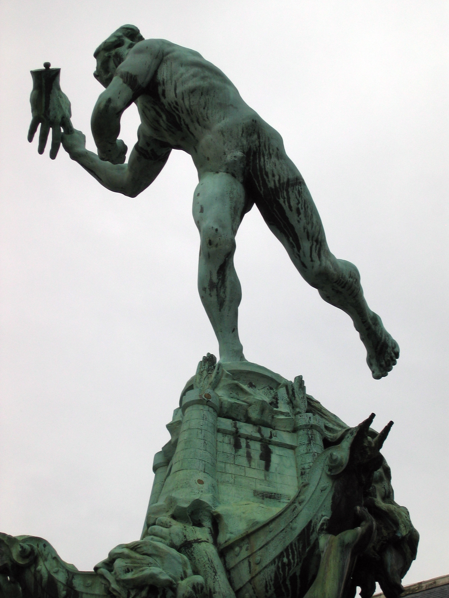 Statue of Brabo and Antigone from the Grote Markt in Antwerp, Belgium.